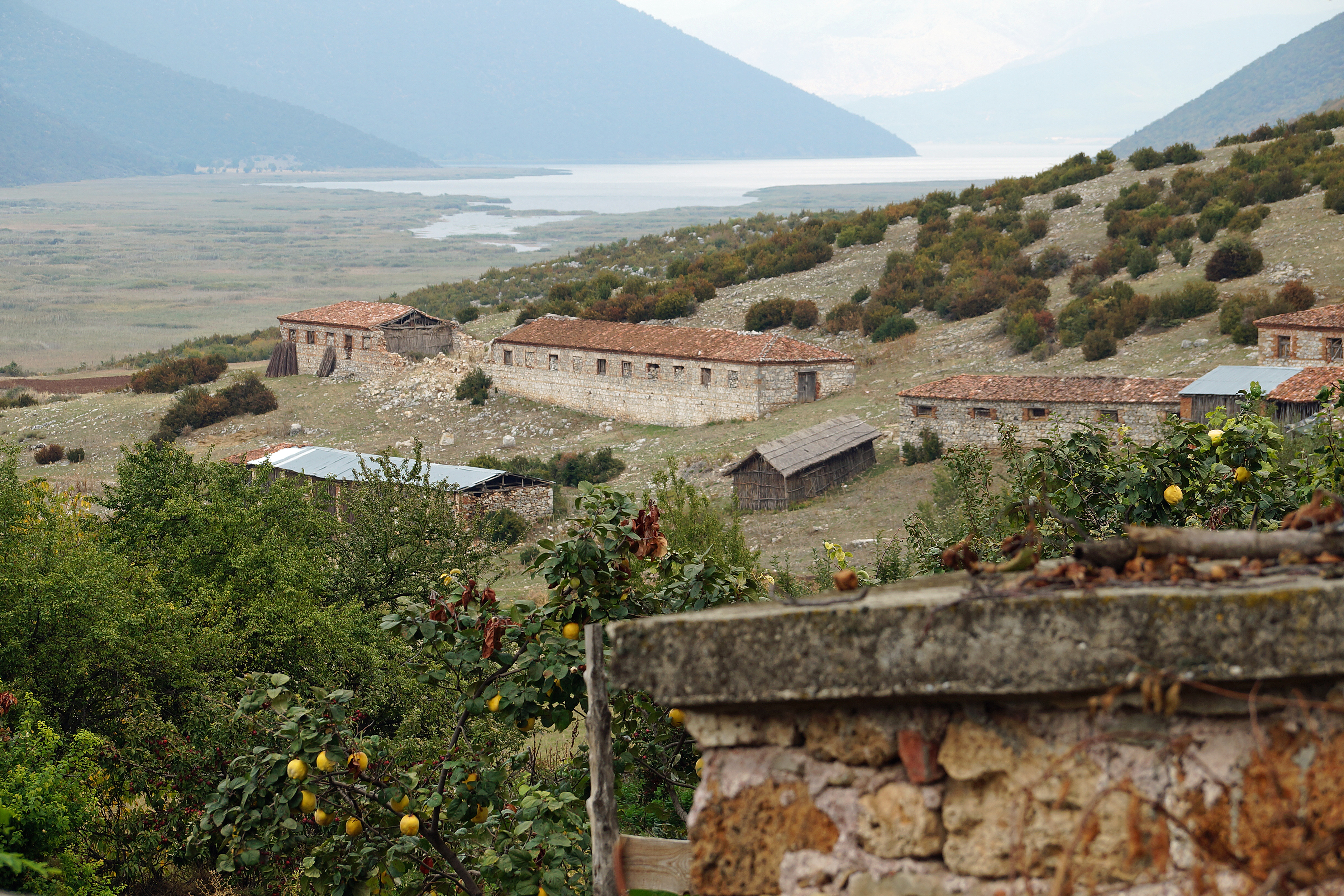 Village of Zagradec in Devoll, Southeast Albania. Small Lake Prespa in the background.